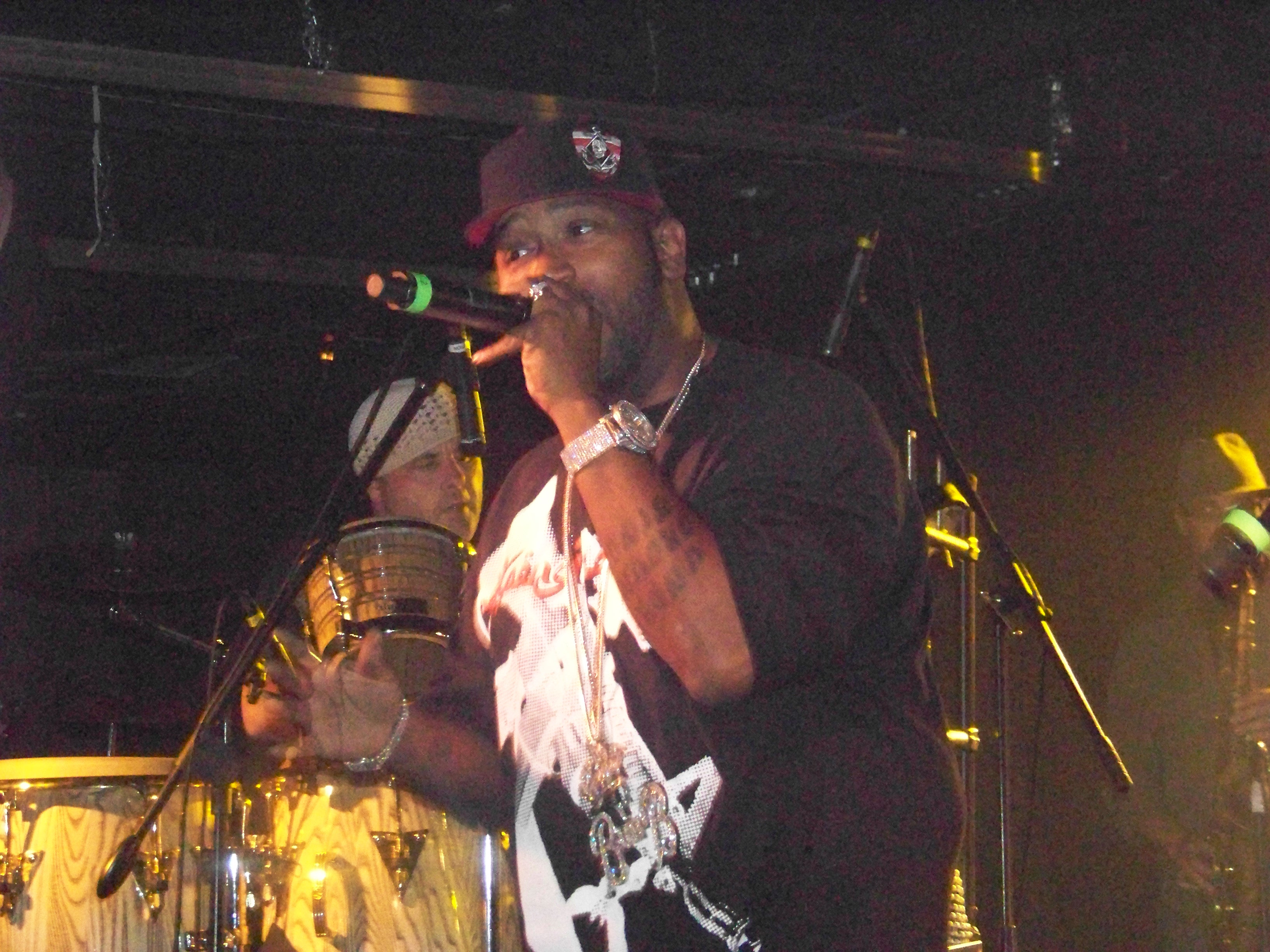 Bun B, American rapper.